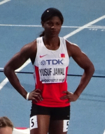 2016 IAAF World U20 Championships in Bydgoszcz, 400m hurdles women final